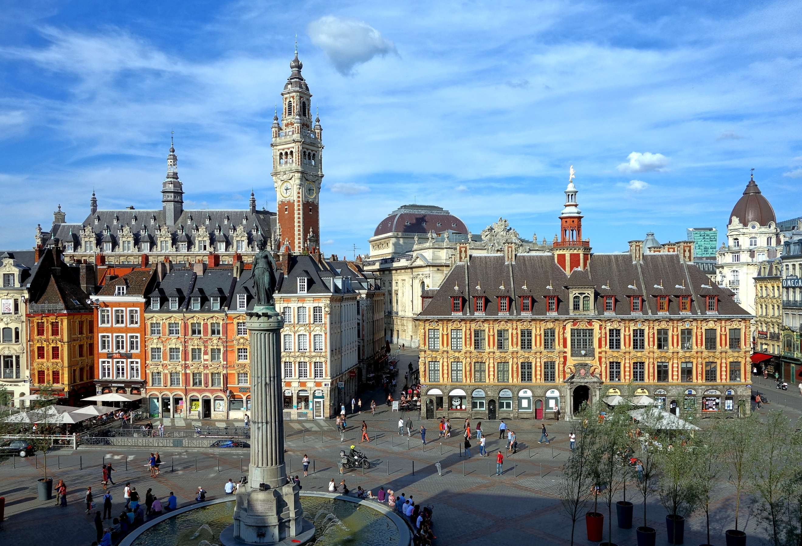 Place du Général de Gaulle, the central square of in Lille, northeastern France. Behind the Column of the Goddess is the bell tower of the Chamber of Commerce. The large building to the right (on the square) is the Vieille Bourse (Old Stock Market).